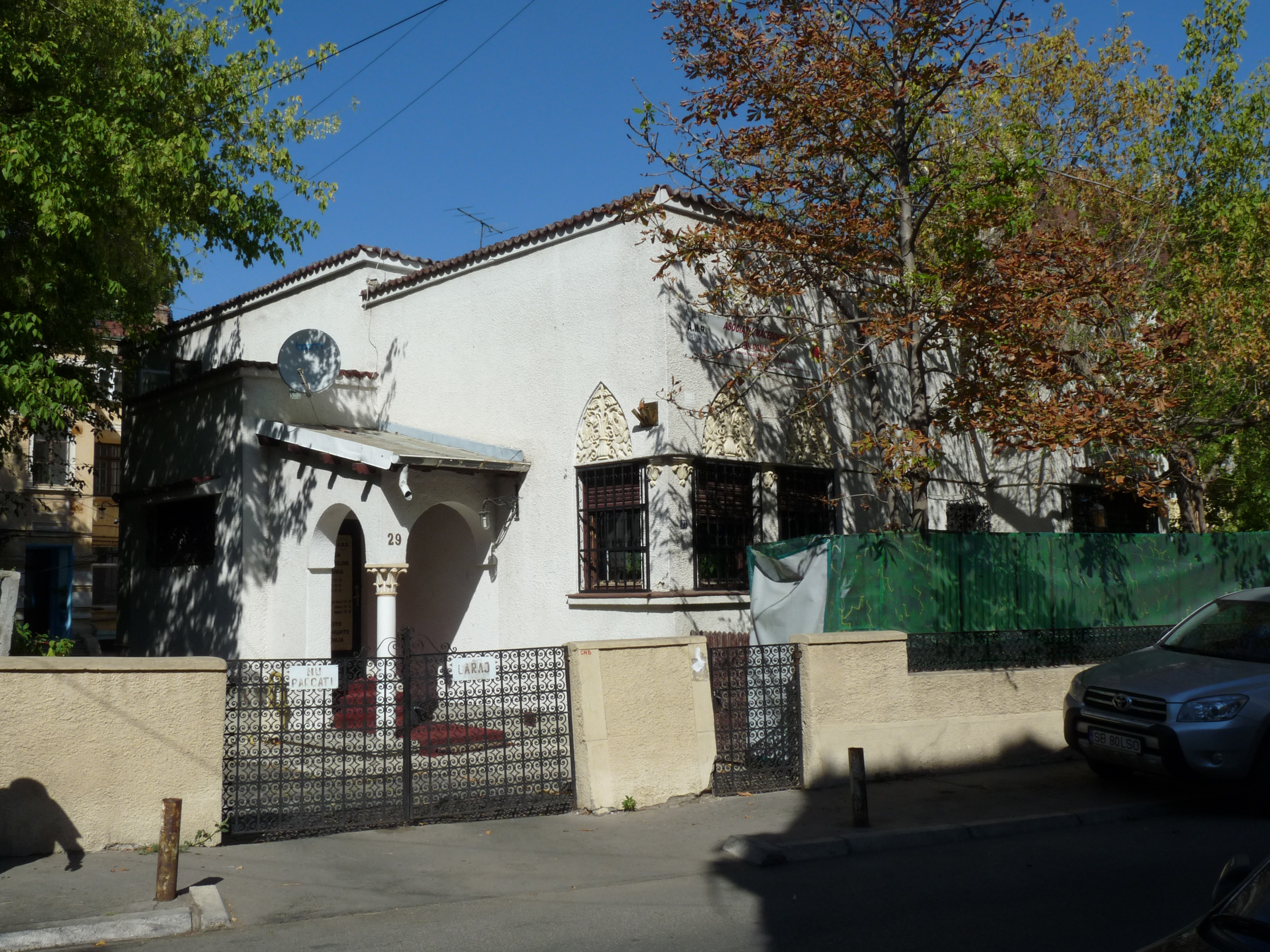 Building from Tomas Masaryk street 29 in Bucharest, RomaniaRomână: Clădire monument istoric din strada Tomas Masaryk nr. 29, București, România